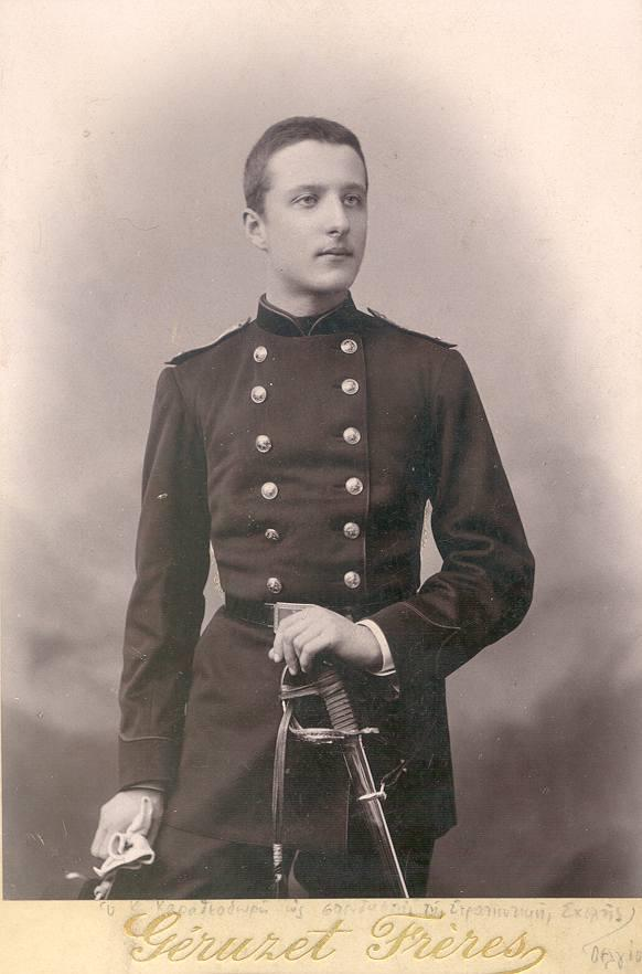 Photograph of Greek mathematician Constantin Caratheodory (1873-1950)